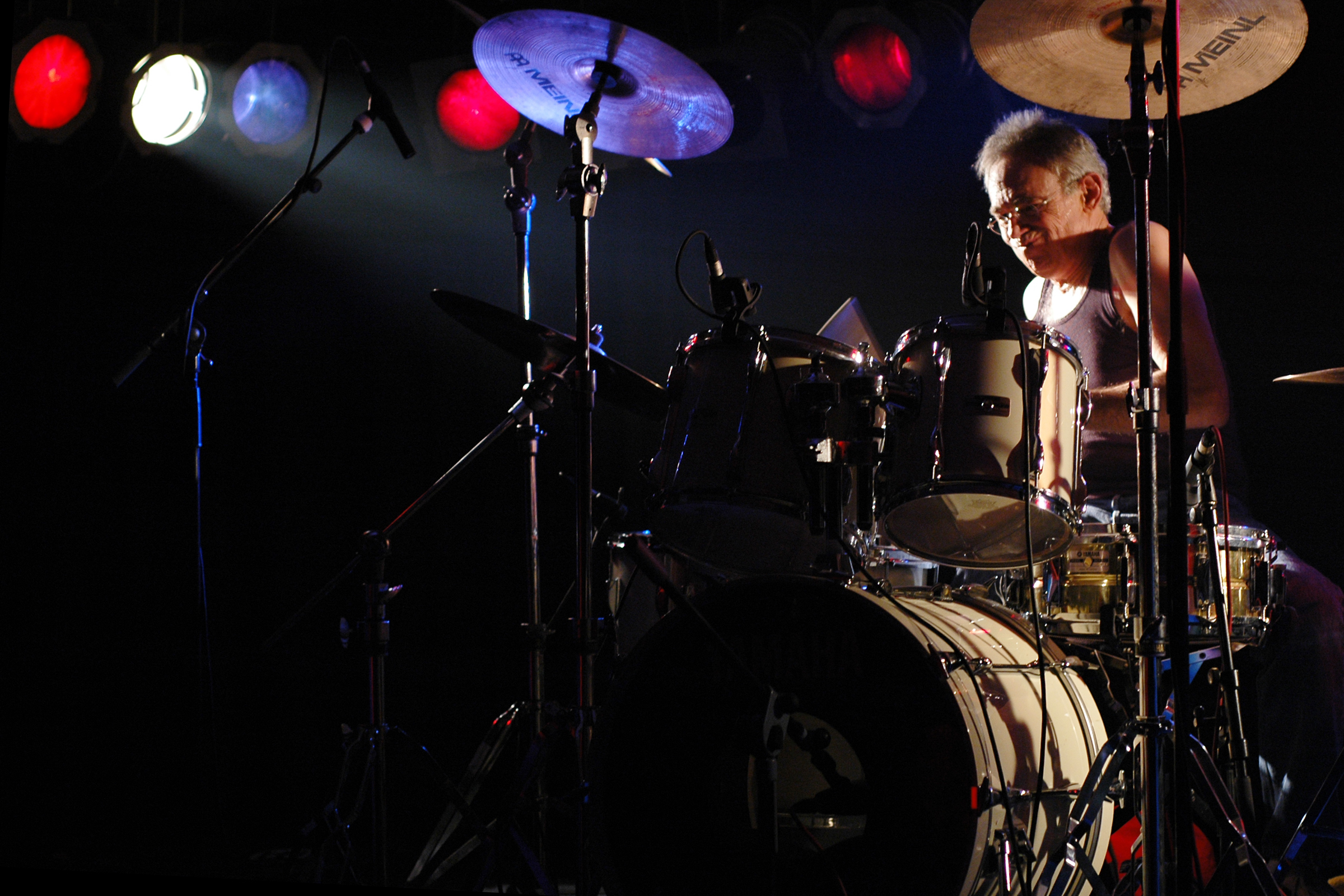 Iron Butterfly live 05.05.2005, (Ron Bushy)